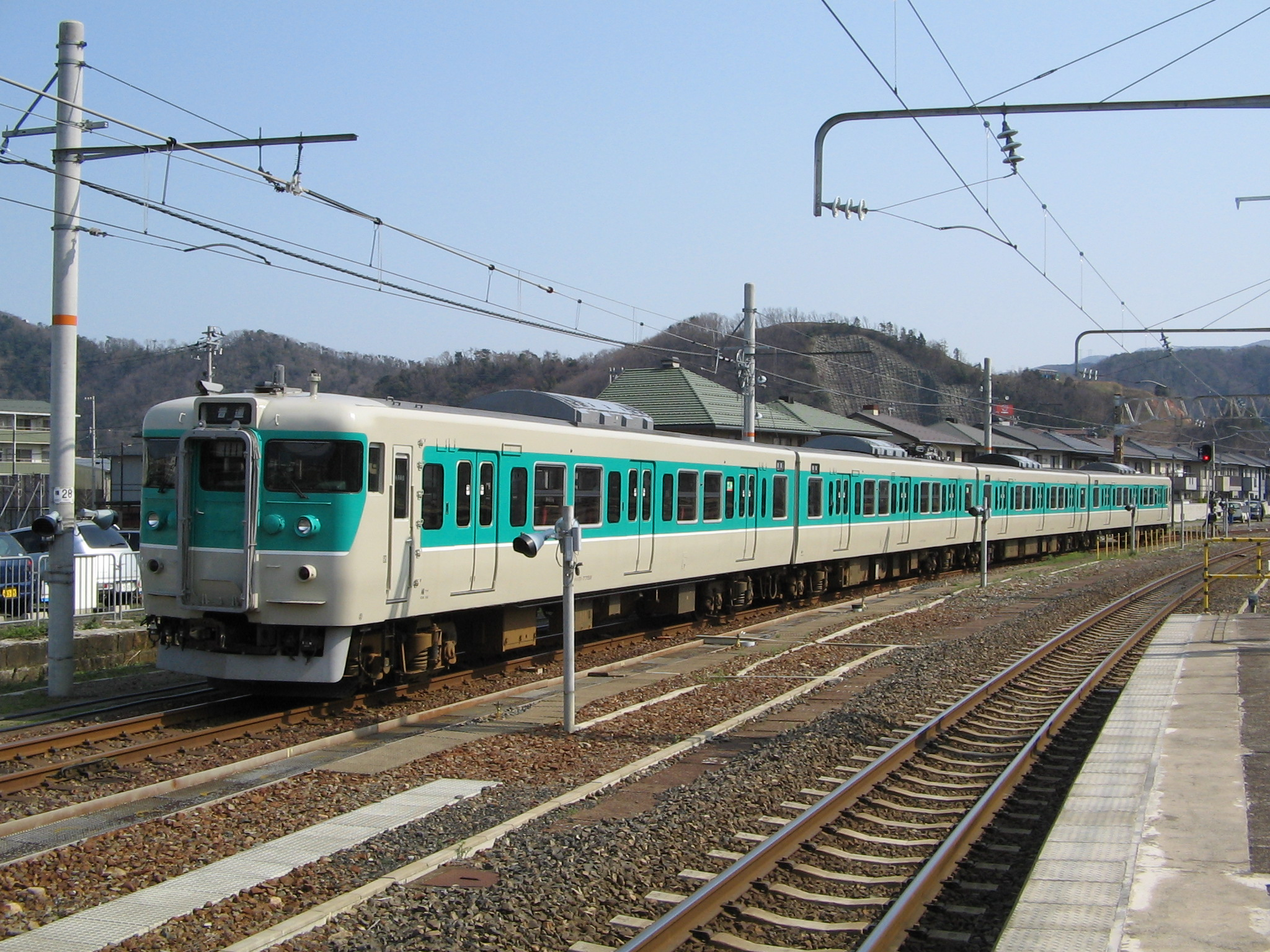 A JR West 113 series EMU at Tsuruga Station in Obama Line livery